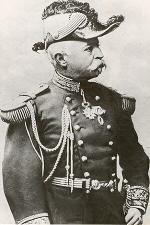 General Etienne Laffon de Ladébat